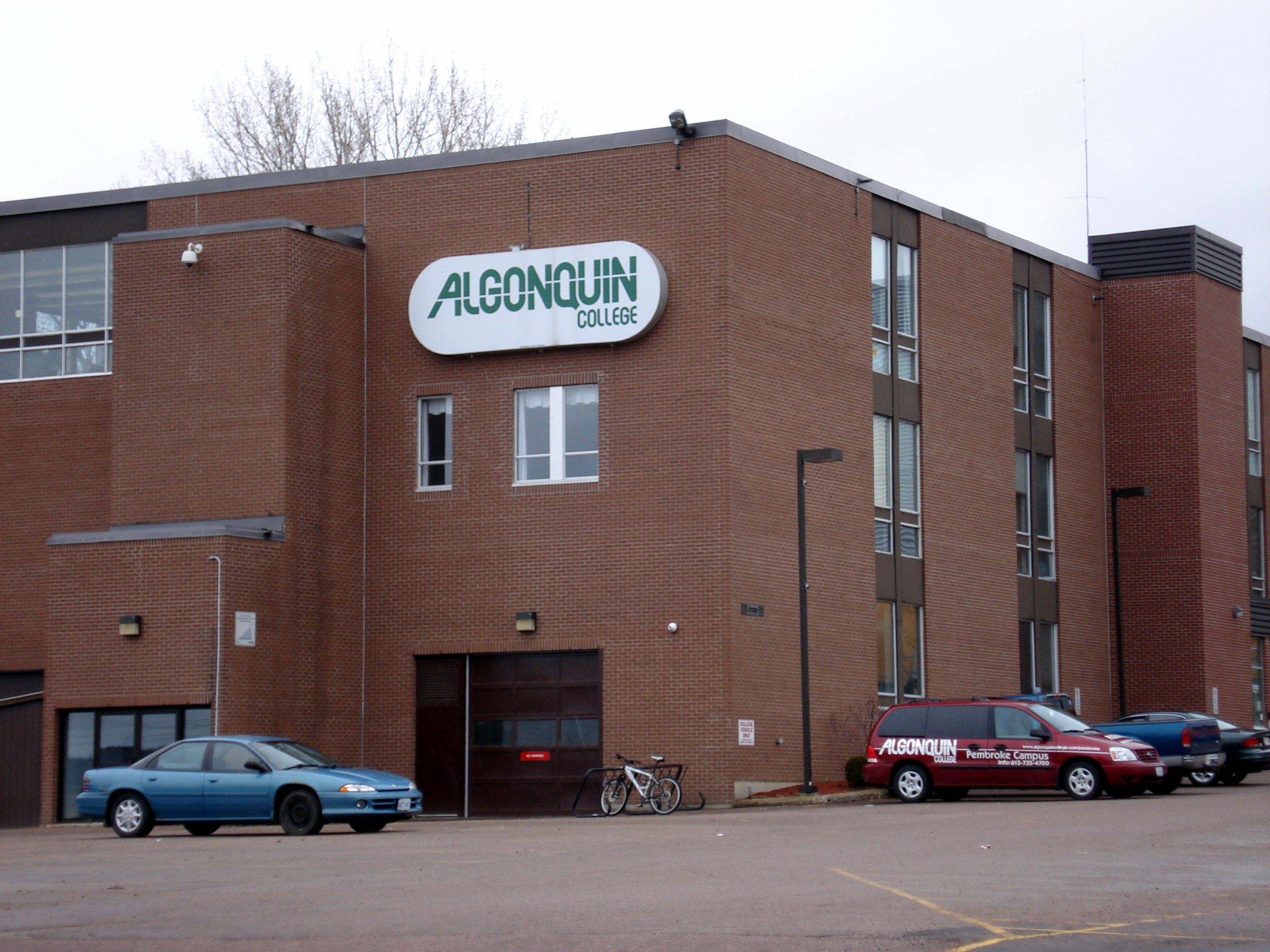 The Pembroke, Ontario campus of Algonquin College